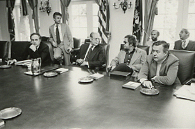 The photo contact sheet, identified as A9986 by the White House Photographic Office (WHPO), is housed at the Gerald R. Ford Presidential Library, a branch of the National Archives and Records Administration (NARA). This file is a 200 dpi photo contact sheet having images from roll of film A9986 of the August 9, 1974 - January 20, 1977 Gerald R. Ford White House Photographic Office Series A0001-A9999 and B0001-B2886 photographs. The date on the photo contact sheet is the date the roll of film was processed, not necessarily the date the photographs were taken. See table below for additional details.